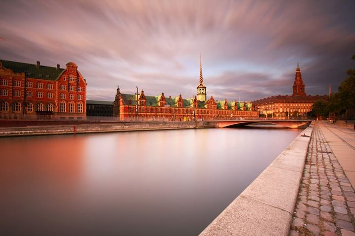 Børsen (The Stock Exchange) is a building in Copenhagen, Denmark, built by Christian IV in 1620-1640.